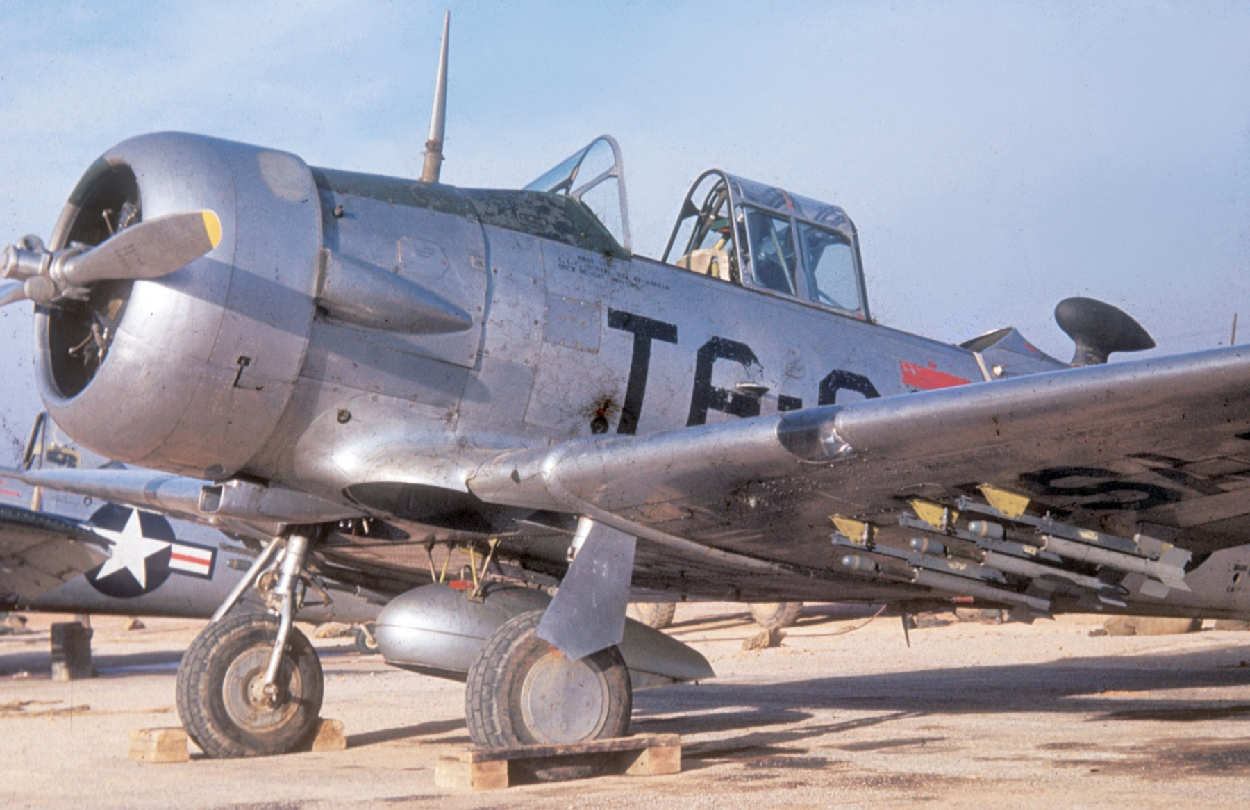 A U.S. Air Force North American T-6 Texan forward air control plane in Korea with underwing phosphor rockets. USAF personnel developed own rockets to visually mark targets: they fabricated rocket rails to attach custom-made rockets -- these rockets were made from a 2.36-inch white phosphorus bazooka warhead attached to the front of a 2.25-inch aircraft practice rocket.